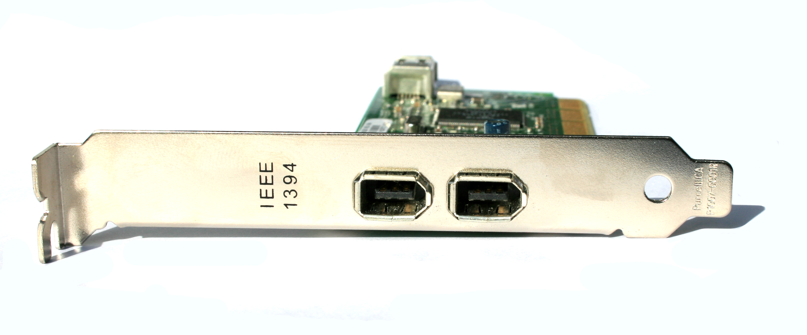 A photo of a IEEE 1394 (also known as Firewire) PCI Expansion Card and connection slots.